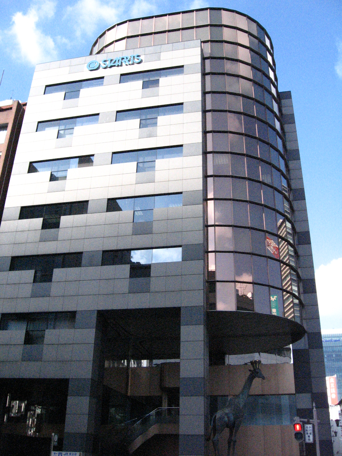 Starts corporation headquarter from Nihonbashi Tokyo.